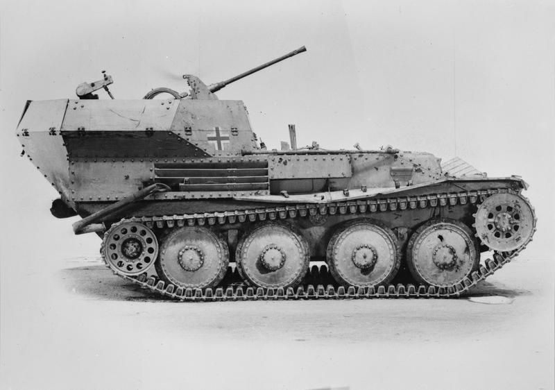 Flakpanzer 38(t) (Right side view)